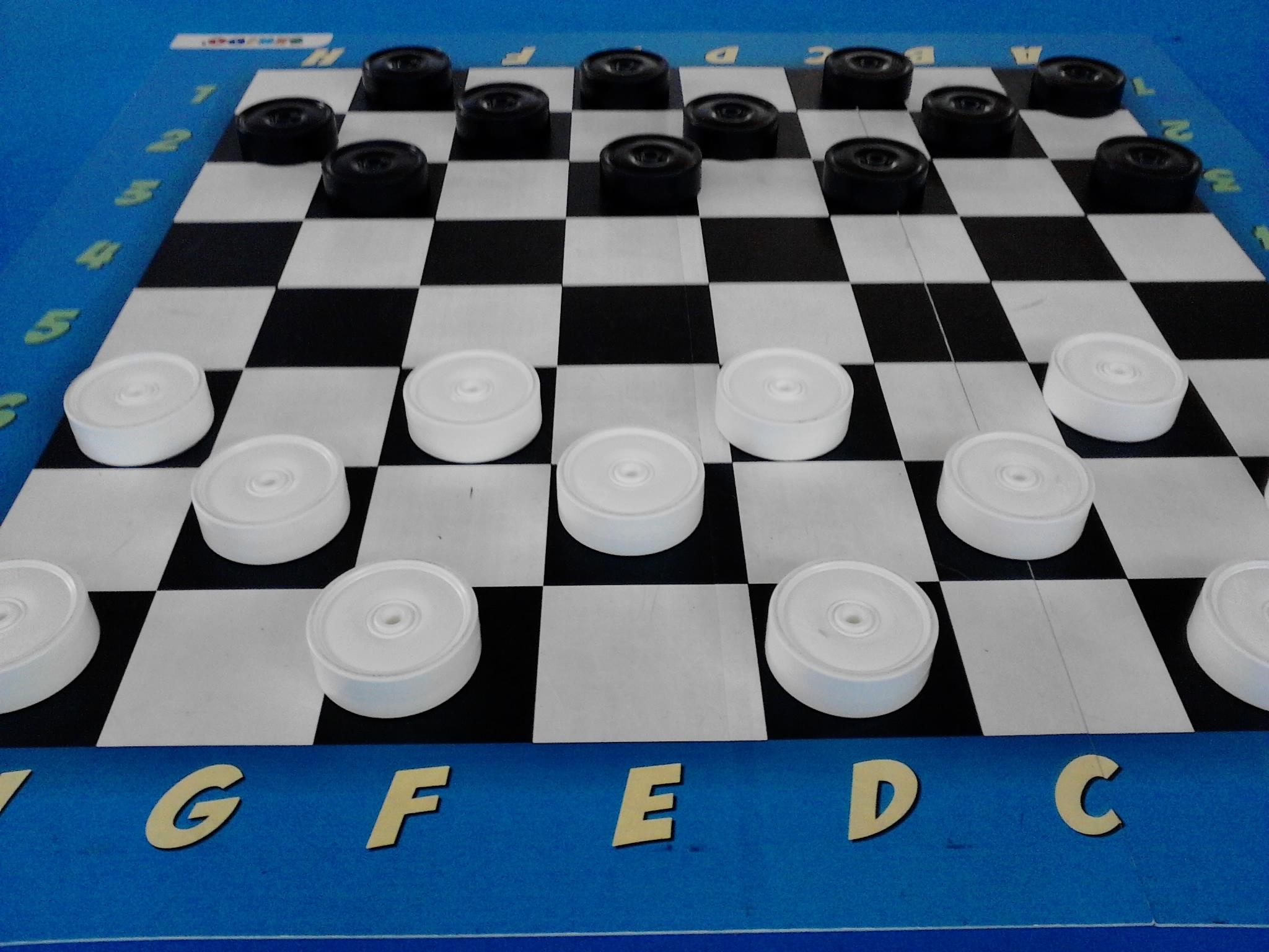 Giant Draughts